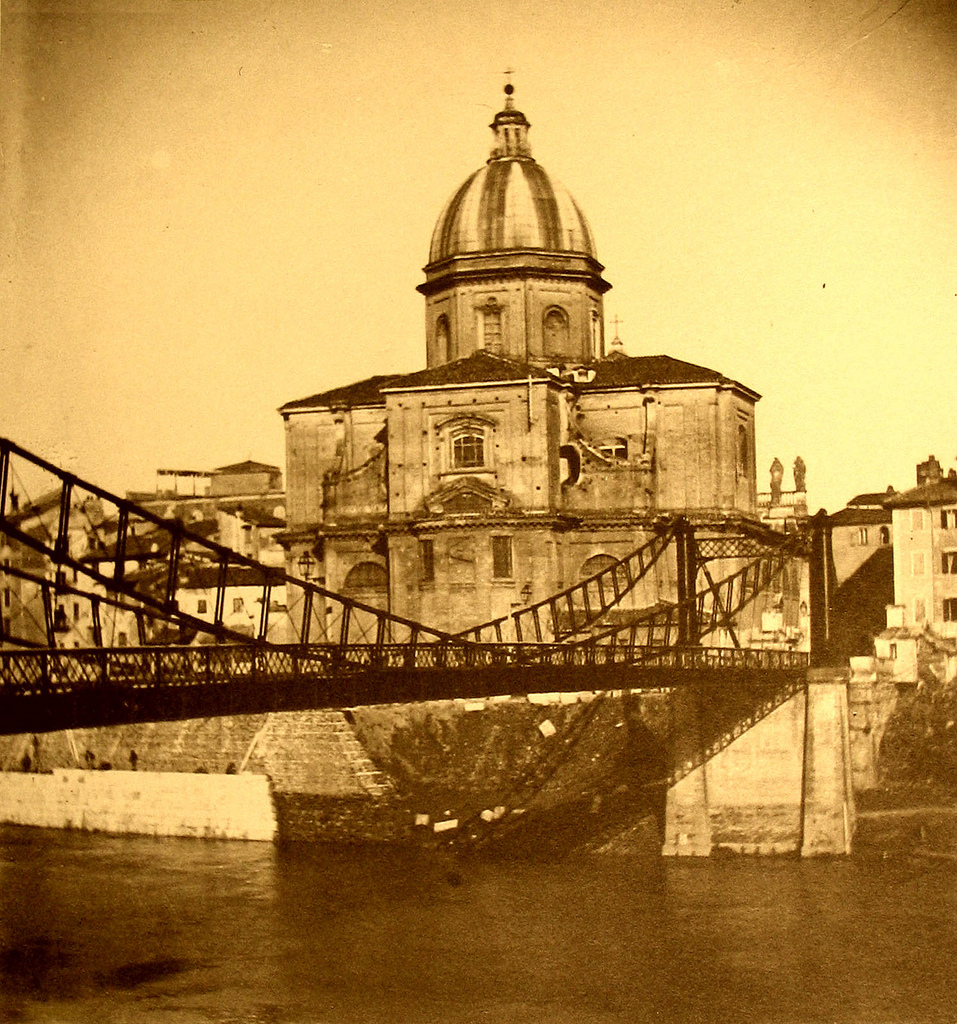 Iron bridge at San Giovanni dei Fiorentini, ca. 1890. The bridge was built in 1863 and demolished in 1941. Photo by Giuseppe Primoli (1851–1927).